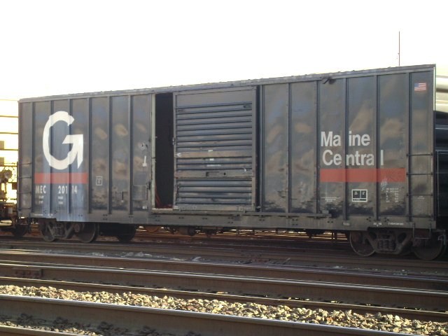 A Maine Central/Guilford Rail System boxcar in Lawrence,MA